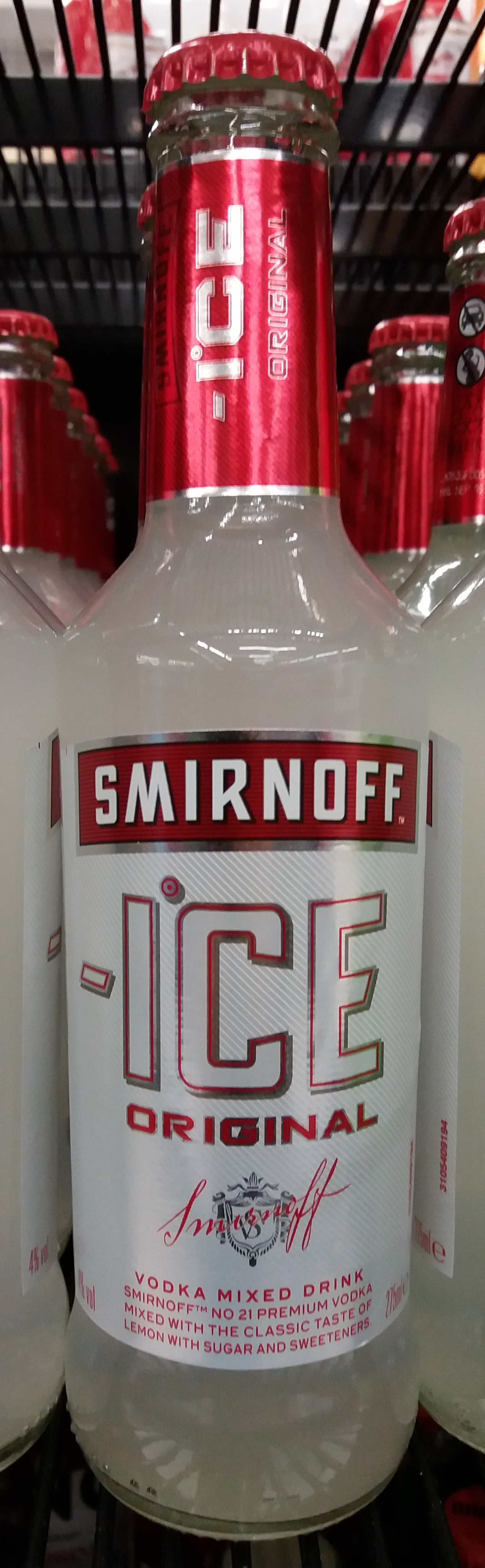 Smirnoff ice long drink bottles in a supermarket in Helsinki